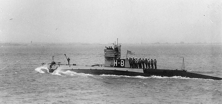 USS H-8 underway, circa 1922